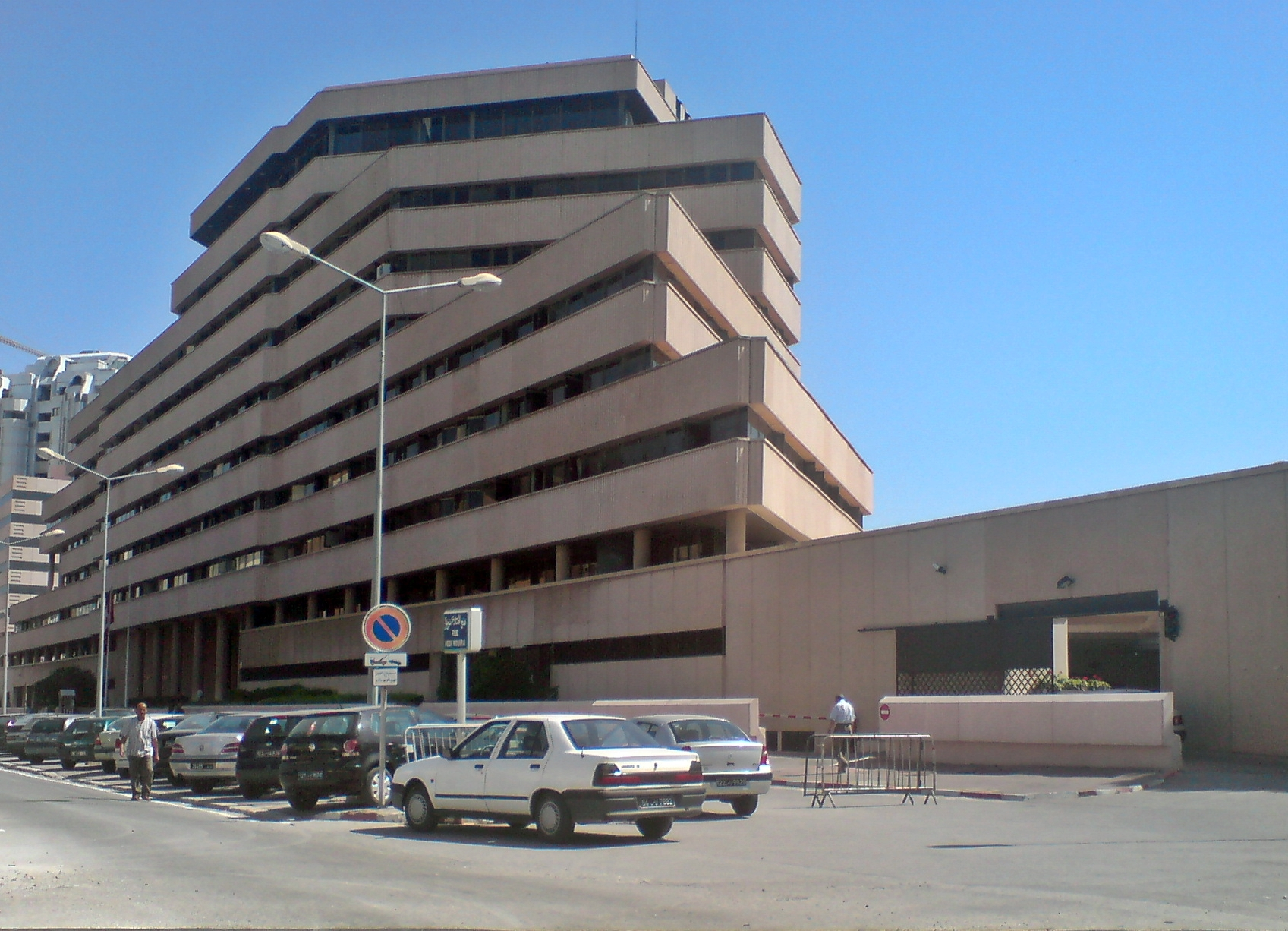 Central Bank of Tunisia, Tunis.